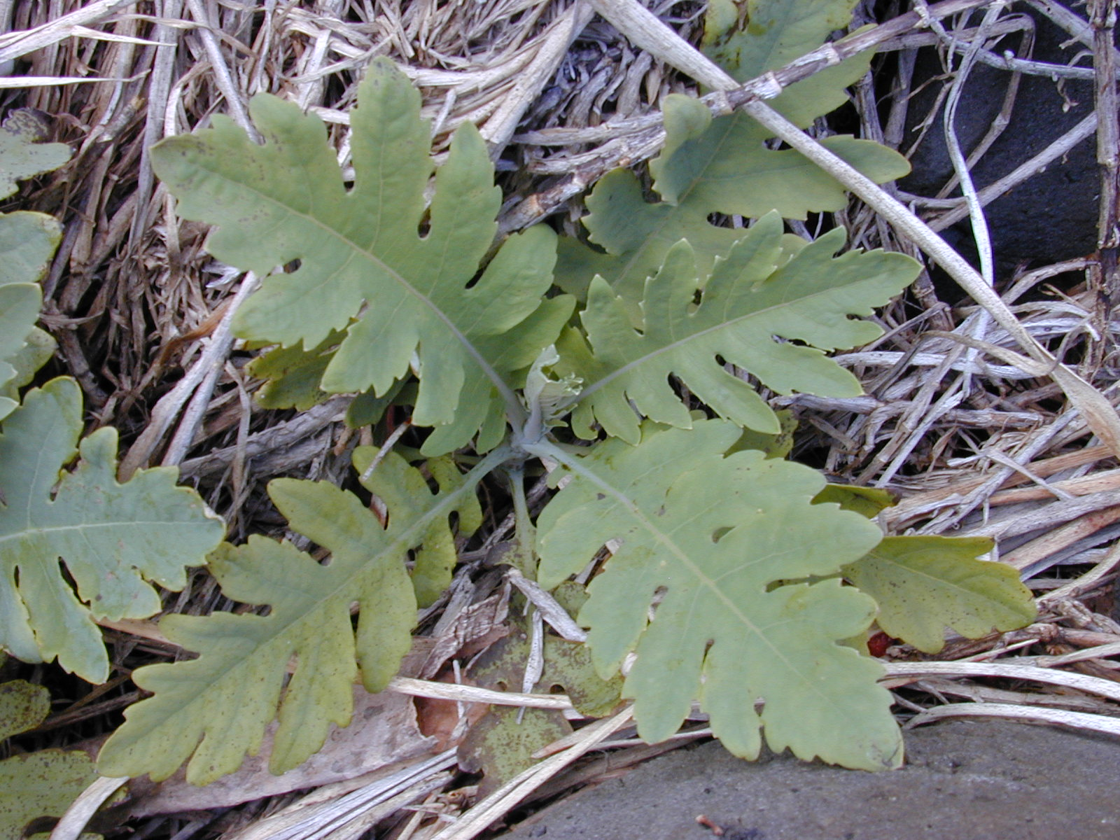 Bocconia frutescens (small plant). Location: Maui, Auwahi